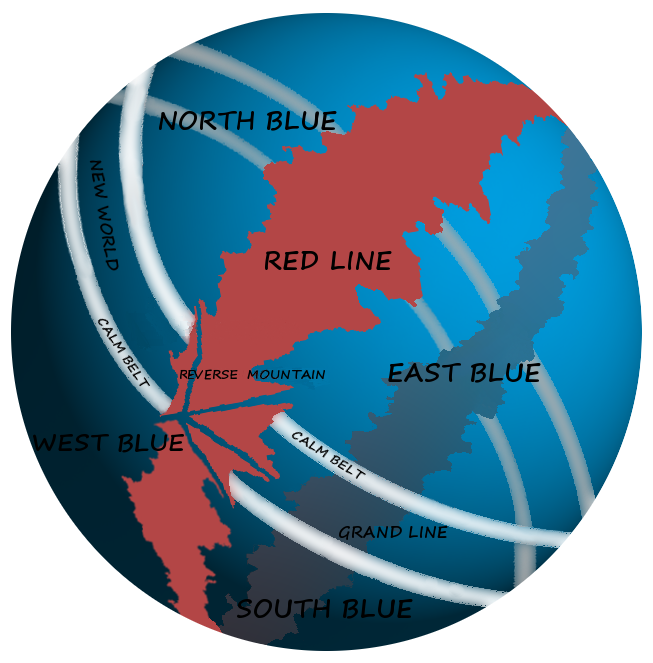 Fixing an error of the previous image.